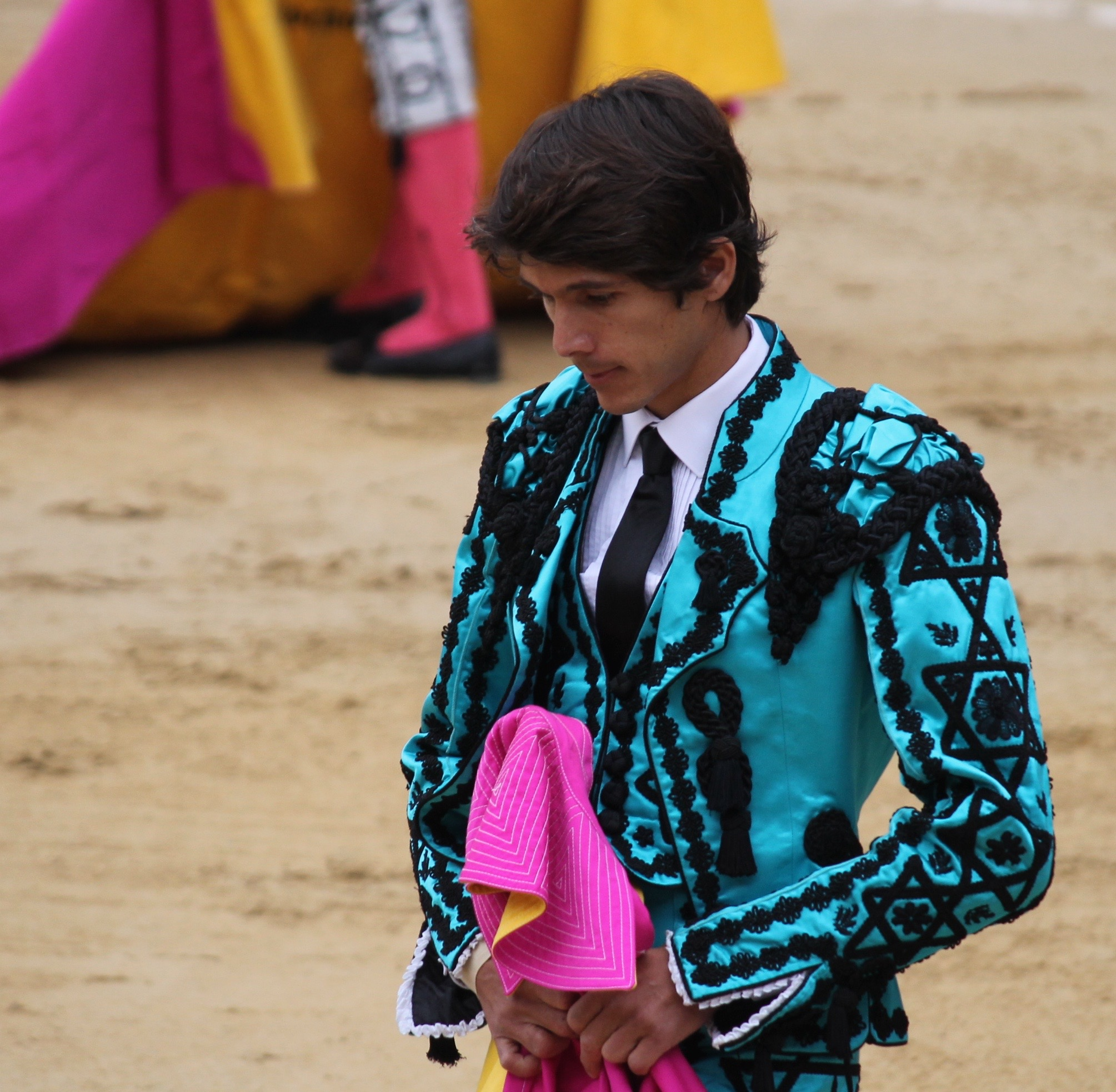 Tercera corrida de abono de 2019 en Bogotá